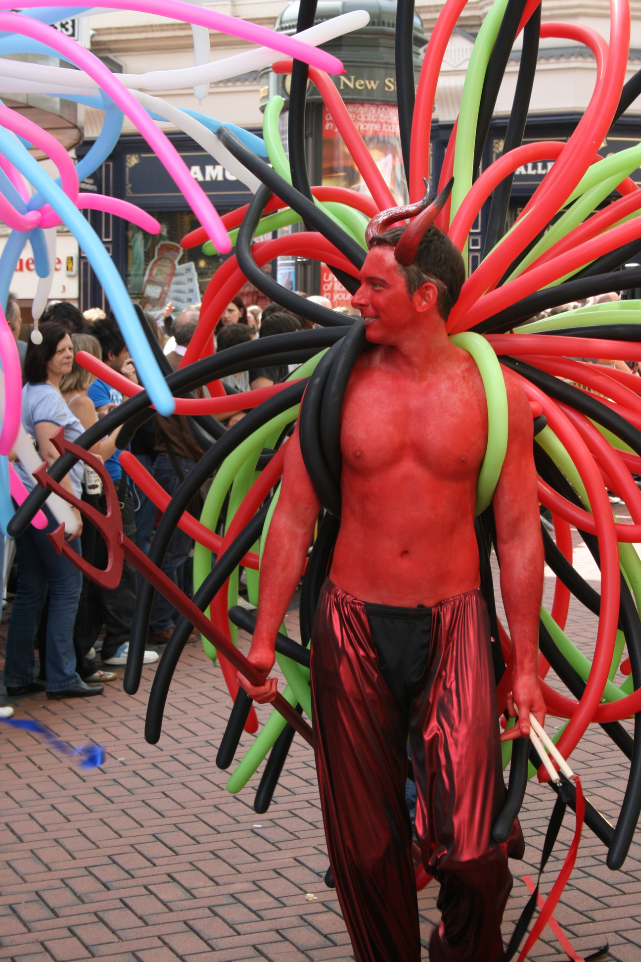 A participant in Birmingham Pride, 2009.